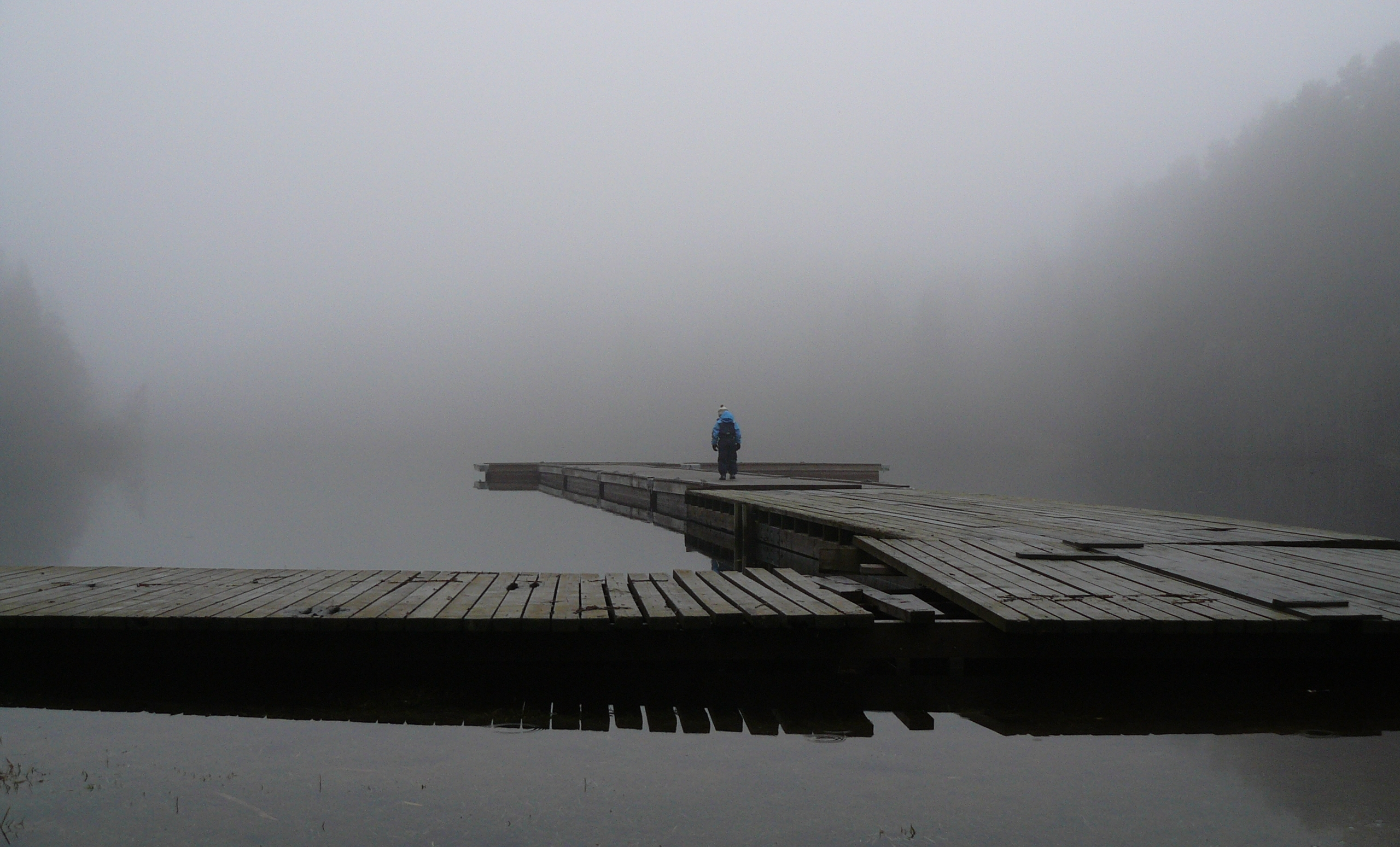 Skraperudtjern, a smaller lake in Østmarka, Oslo.